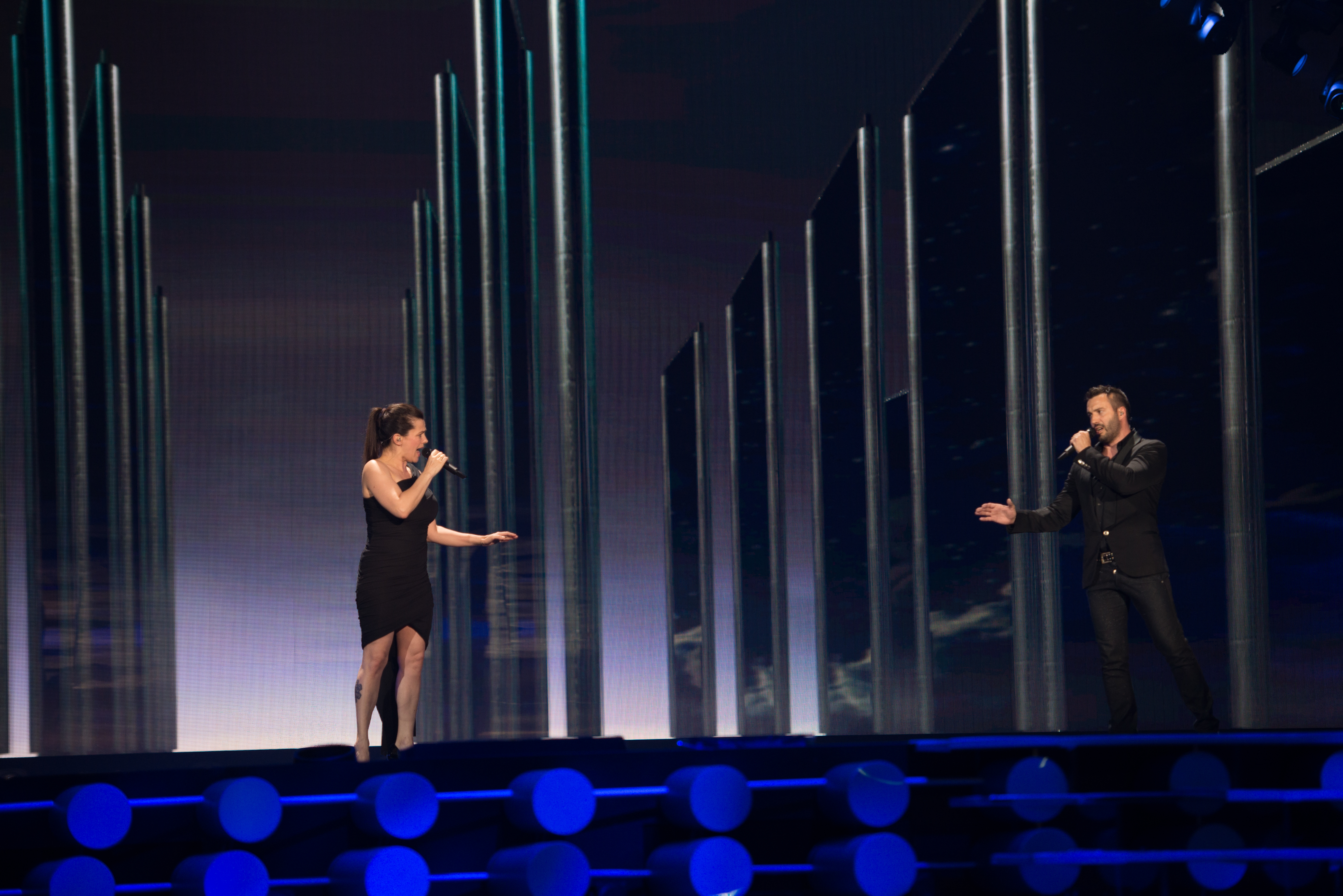 Eurovision Song Contest Vienna 2015: Marta Jandová & Václav Noid Bárta